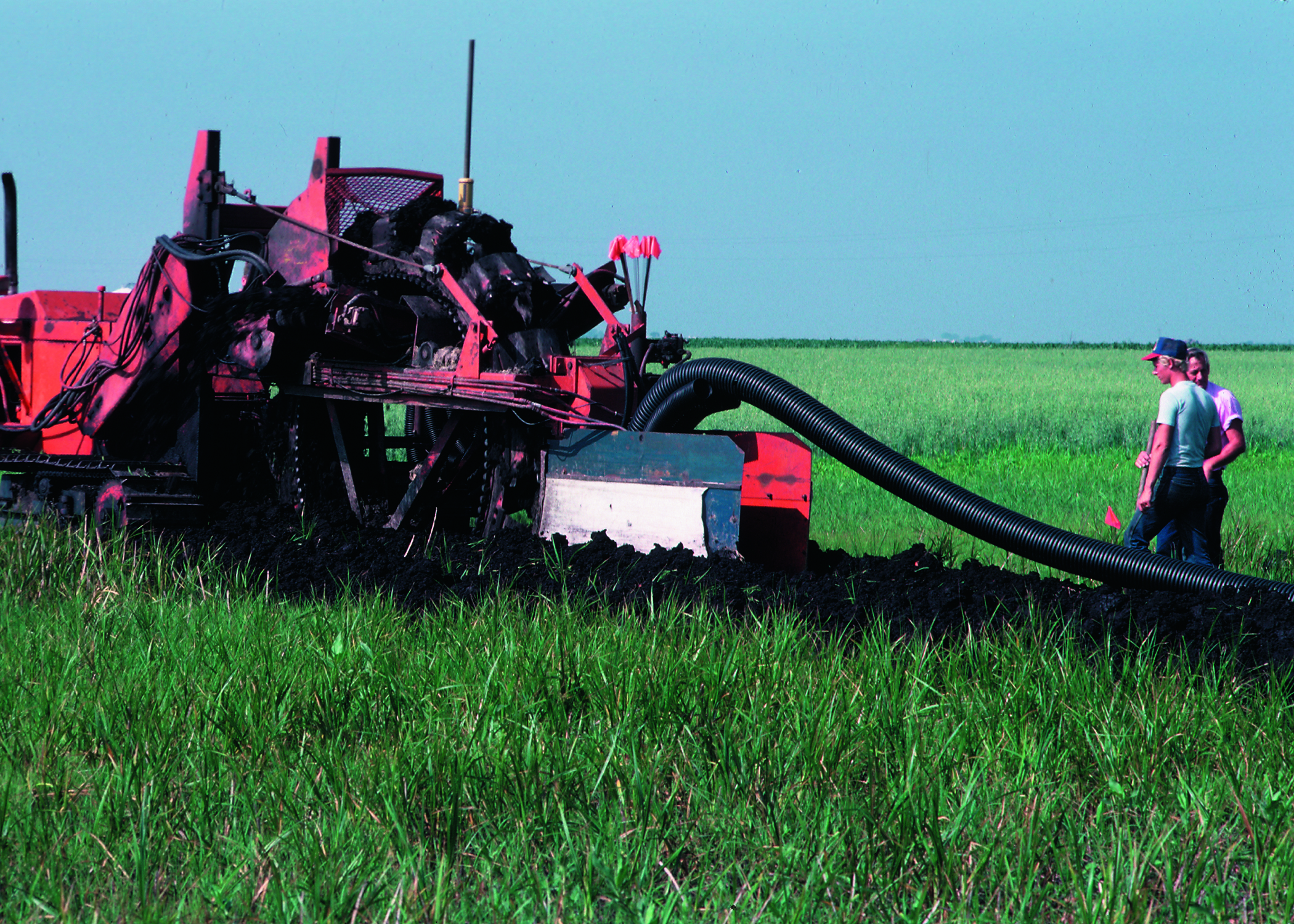 Installing perforated drainage tubing into a wet area in north-central Iowa in the 1980's.